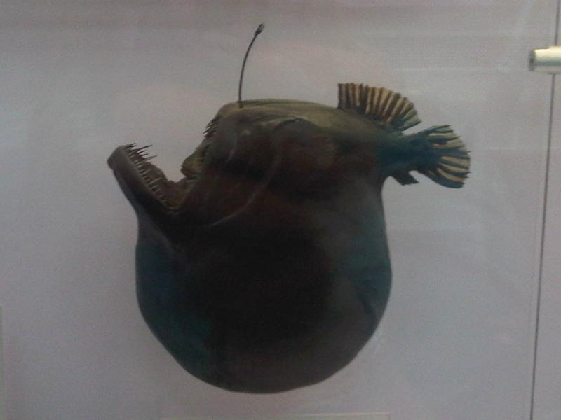 Humpback anglerfish (Melanocetus johnsonii) model after a meal, at the Natural History Museum in London, England.